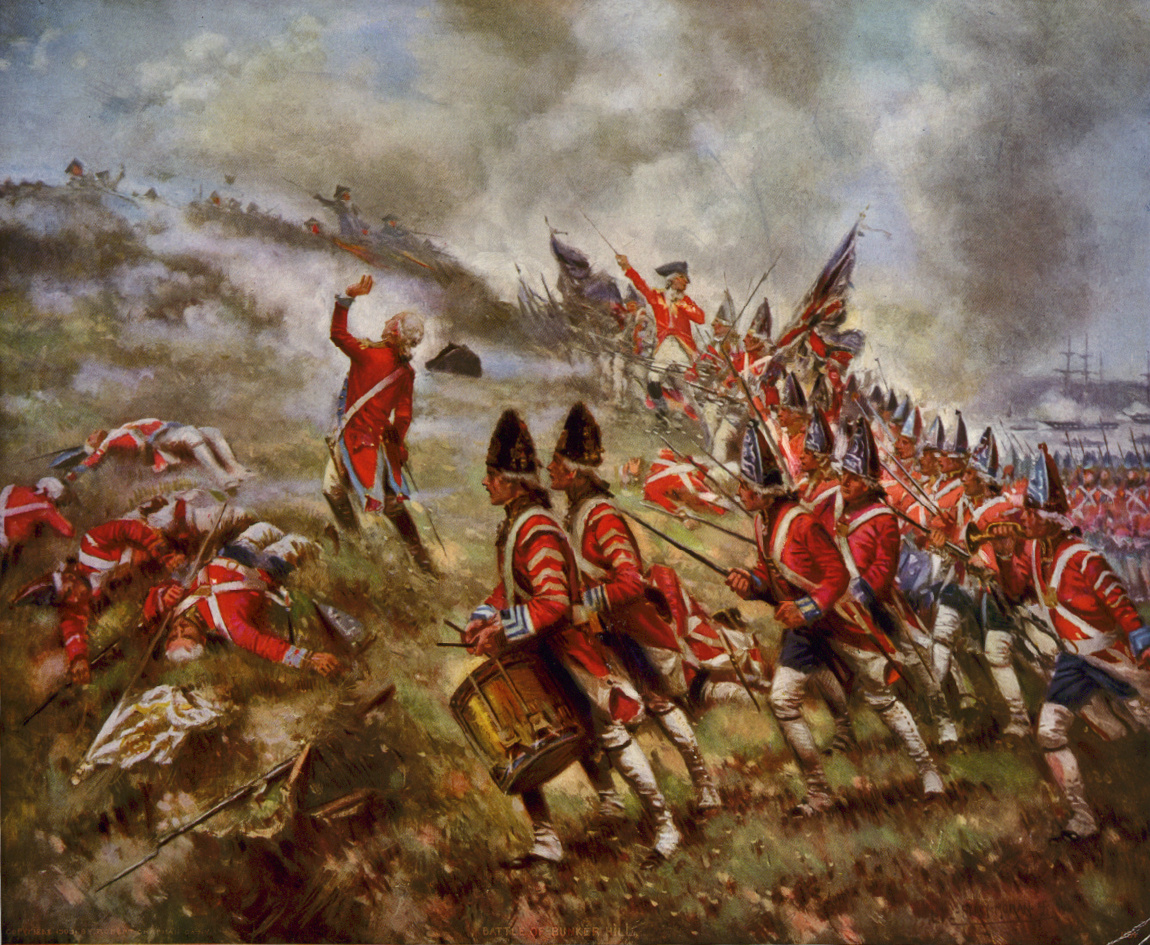 "Battle of Bunker Hill" (1909) A photomechanical, halftone color print depicting the Battle of Bunker Hill painting by Moran. Source image has been cropped to remove borders.